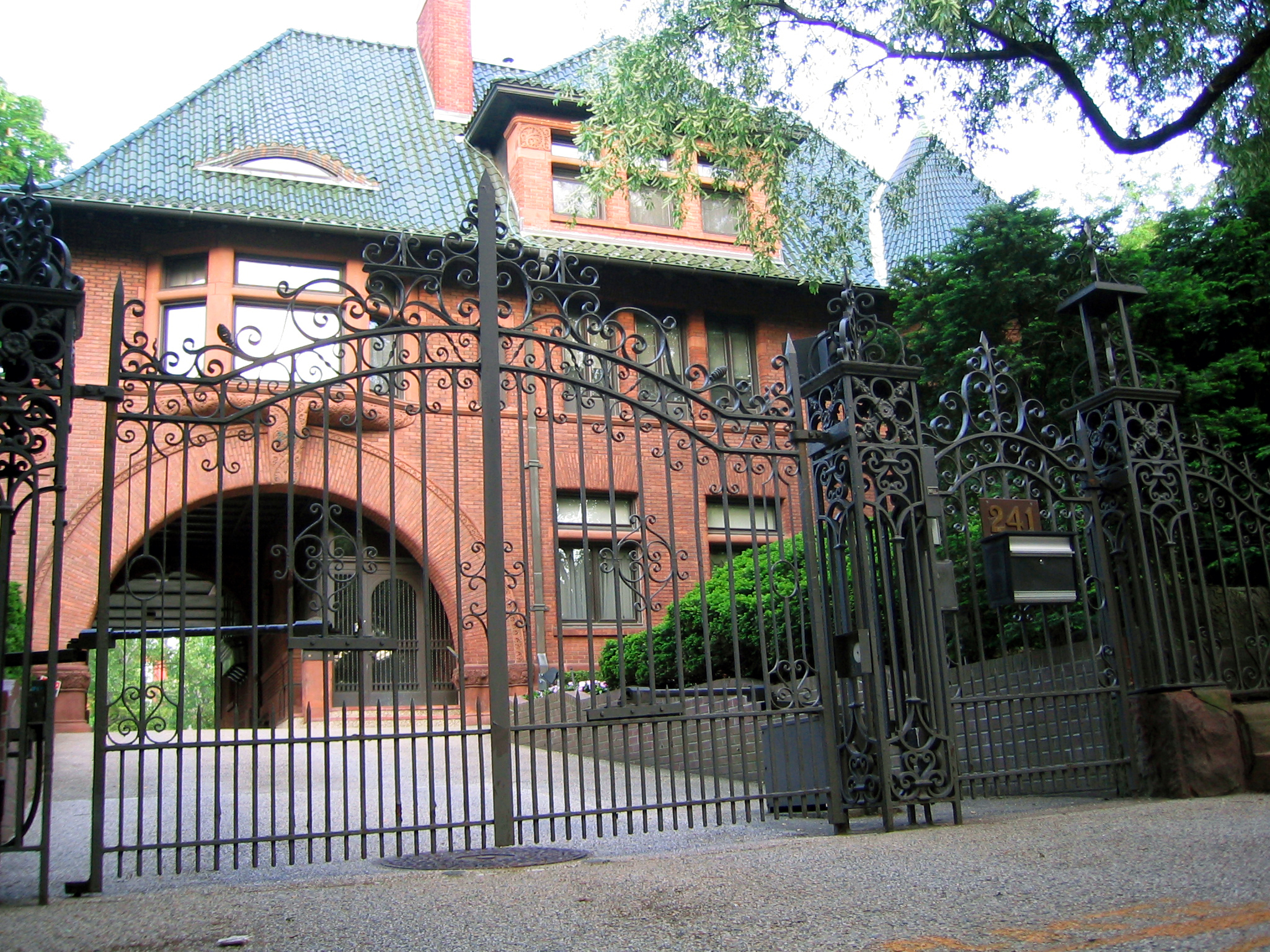 Photo by Nathan Hart - One of the historic Pratt mansions in Clinton Hill, Brooklyn, NY. Taken with a Canon Digital Elph, 2005.